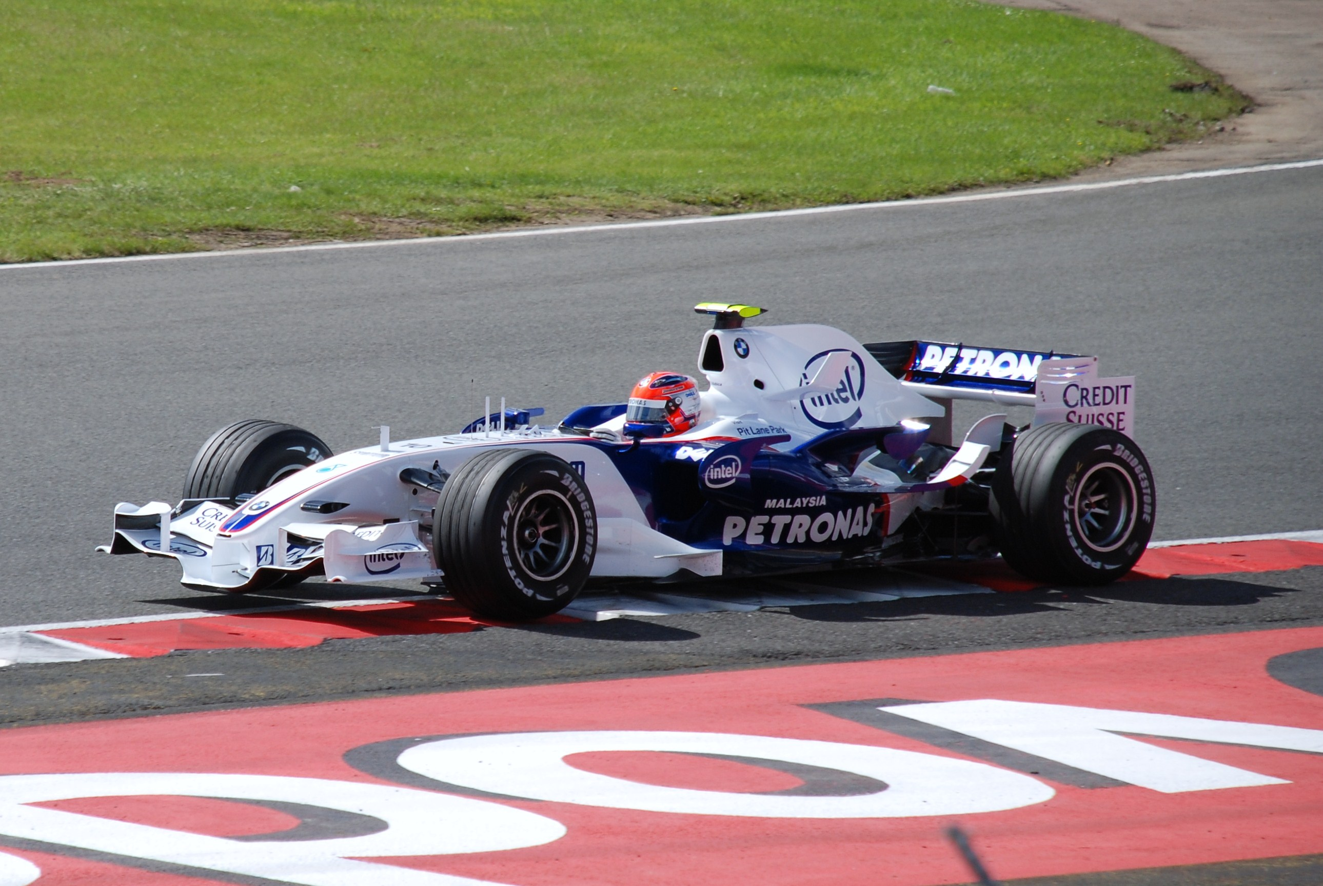 Robert Kubica driving for BMW Sauber at the 2007 British Grand Prix.